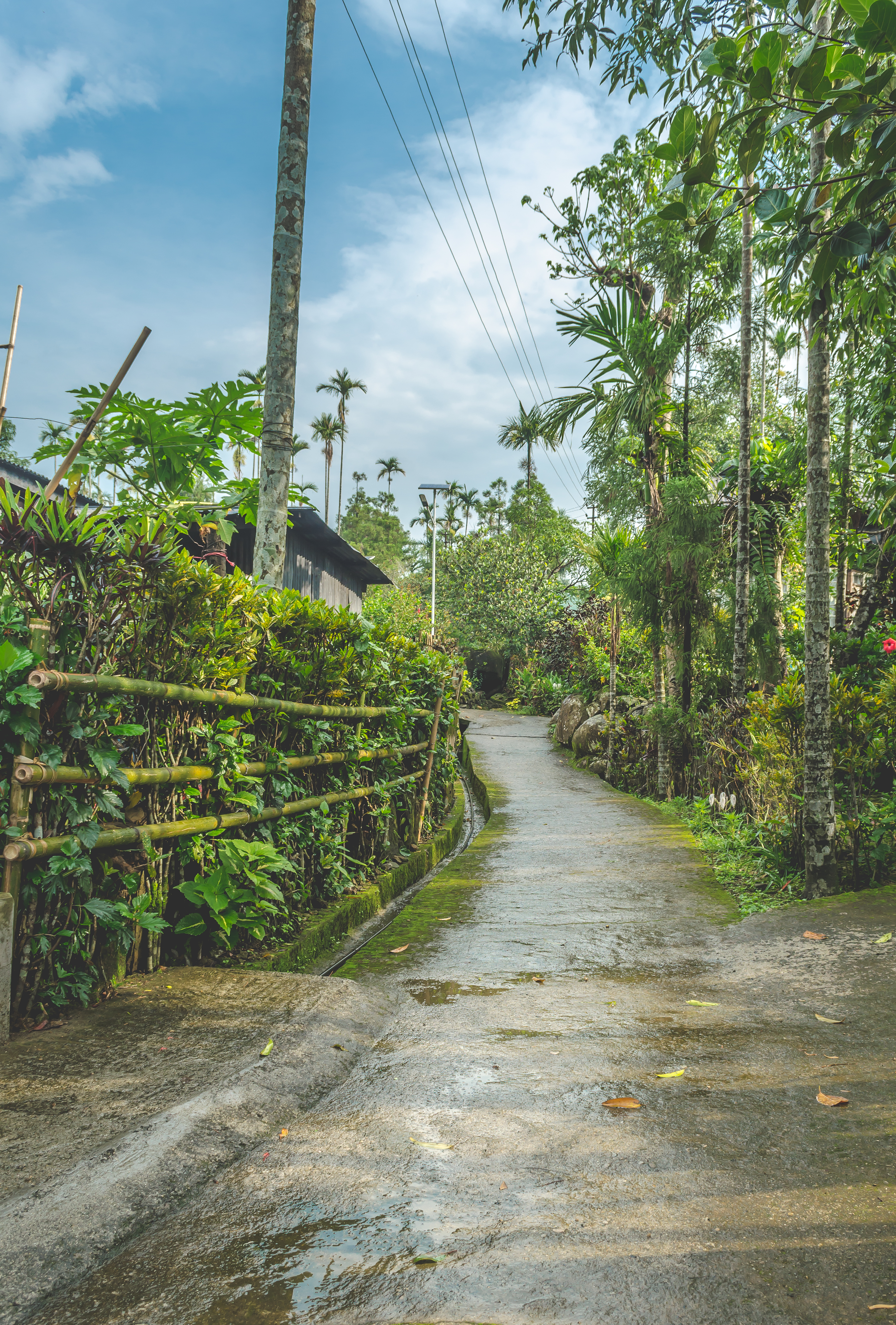 Street View of Mawlynnong ,This was shot on a early morning. Mawlynnong is a village in Meghalaya, the Cleanest Village in Asia. This village is the best example of how people are preserving the beauty of nature